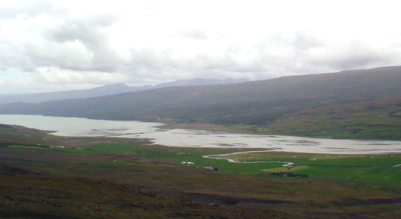 Fljótsdalur, picture by Bjarki Sigursveinsson, August 7 2004.